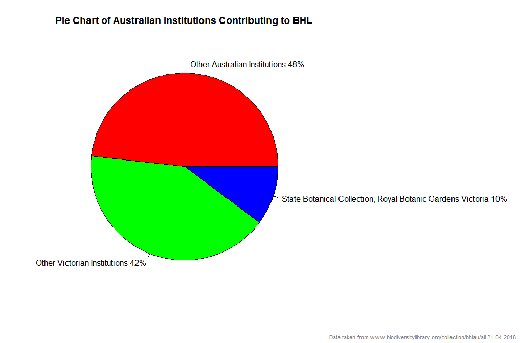 The Australian collection within the BHL Librarr: was downloaded and processed to show the contributions (124 volumes in 1212 volumes 22974 pages, ~ 10%of the volumes) made by the Royal Botanic Gardens Victoria to BHL. 10% volumes (124) from RBGV, 42% (504 volumes) from other Victorian institutions and a remaining 48% (584 volumes) from all other Australian Institutions. Data downloaded & processed in R on April 21, 2018